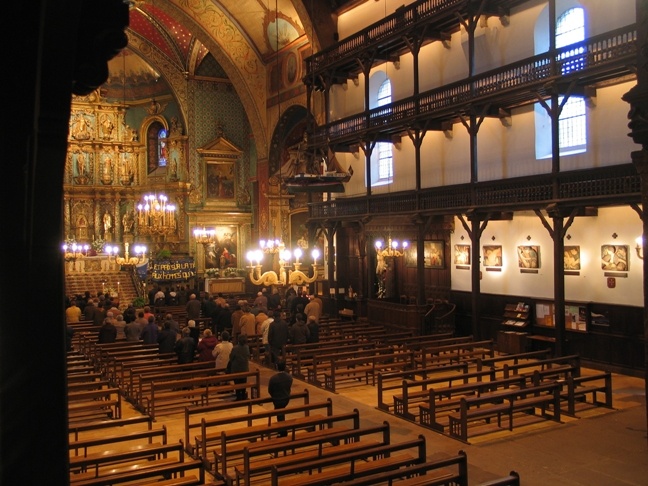 Saint-Jean-de-Luz - church St.Jean-Baptiste interior with its three balconies.